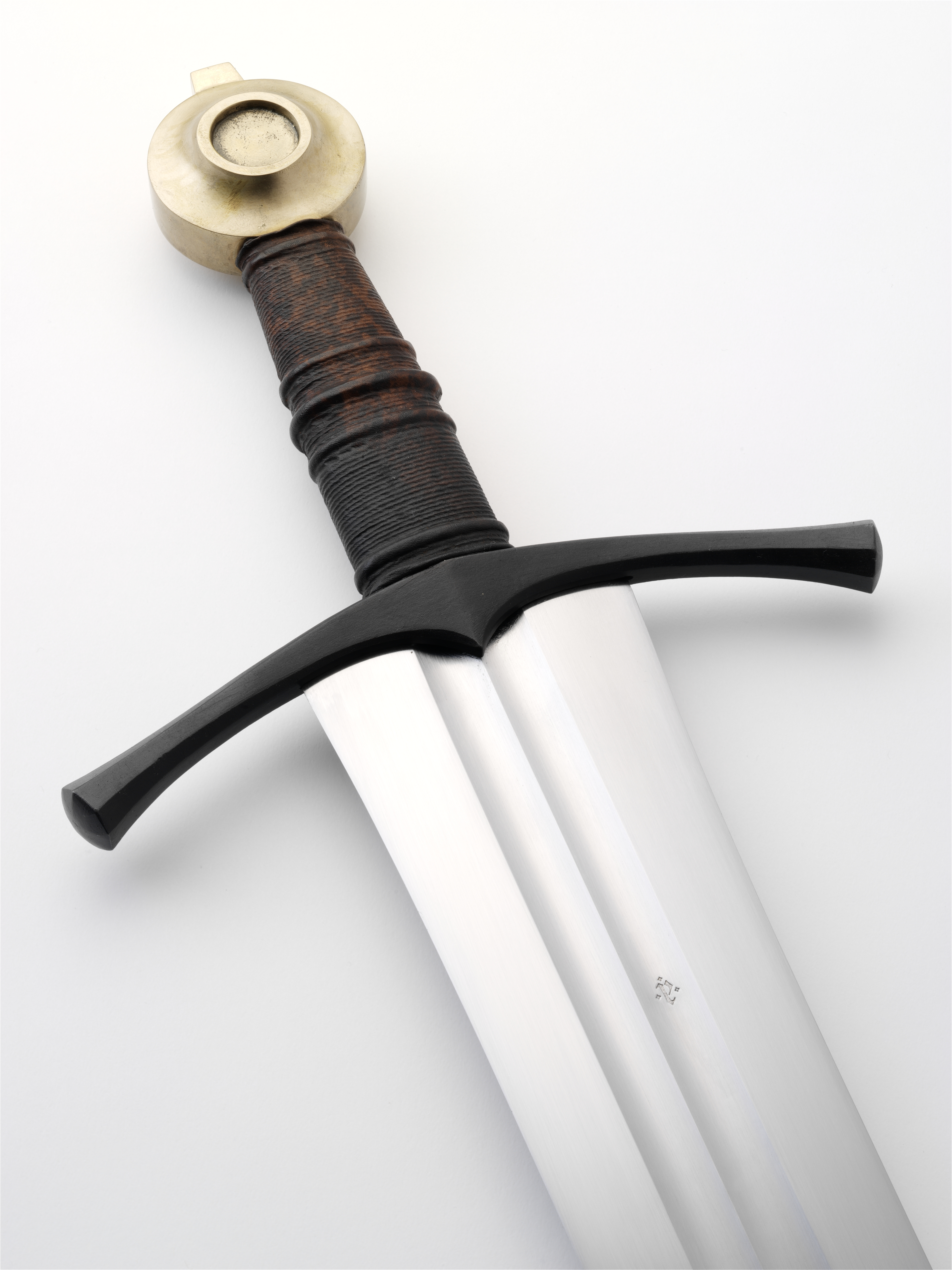 The Sovereign Limited Edition Medieval Sword